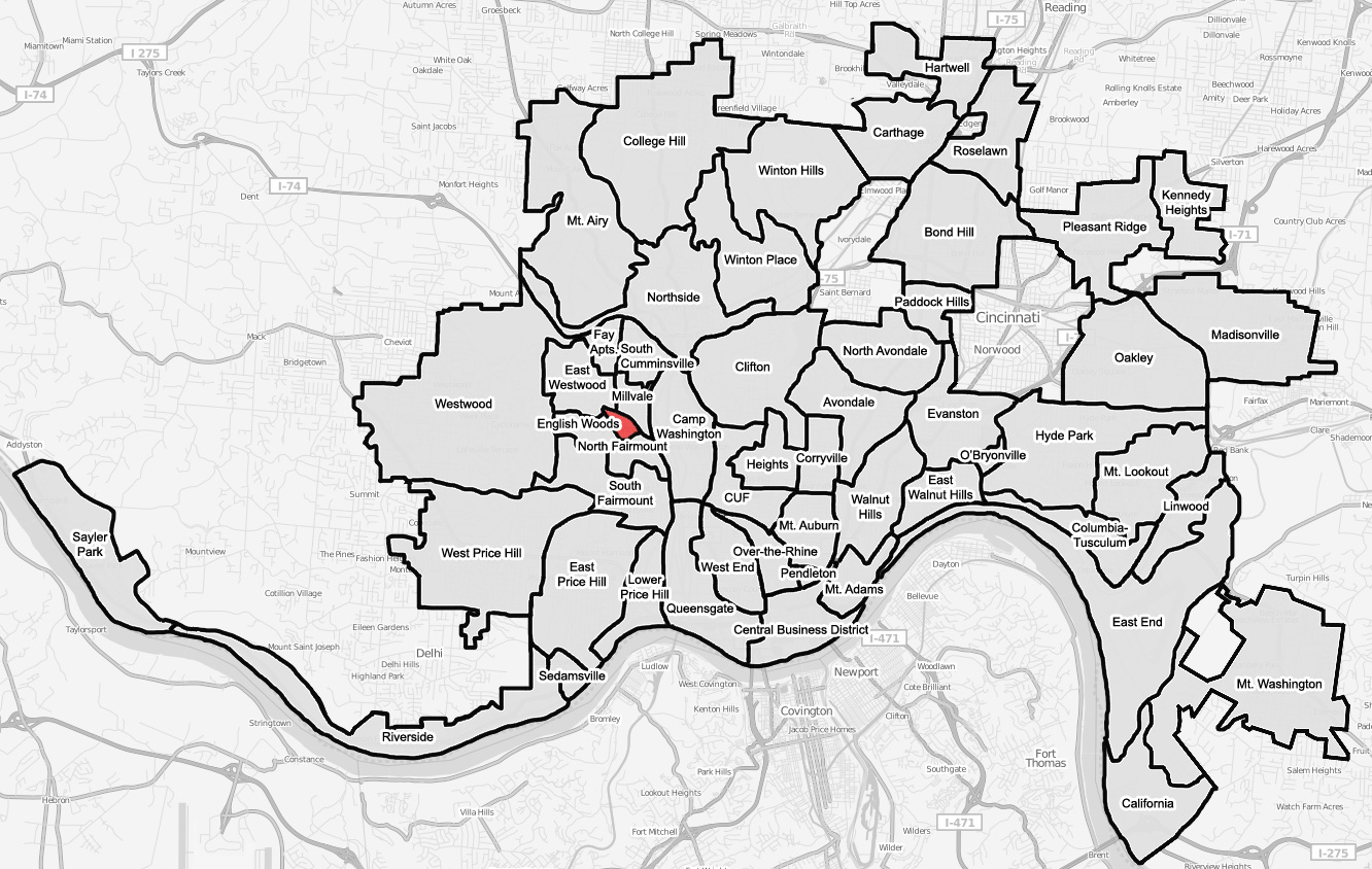 A map of the neighborhood of English Woods within Cincinnati, Ohio. Neighborhood lines are based on information from This street map is derived from a free map.